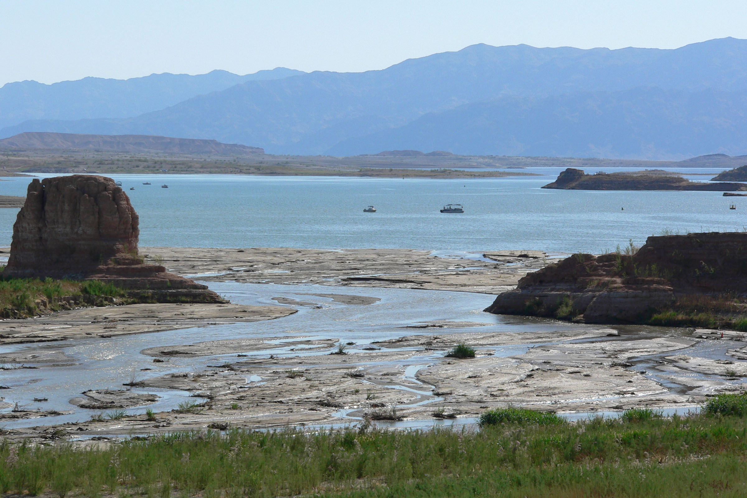 Las Vegas Bay with Las Vegas Wash emptying into it, Lake Mead, southern Nevada